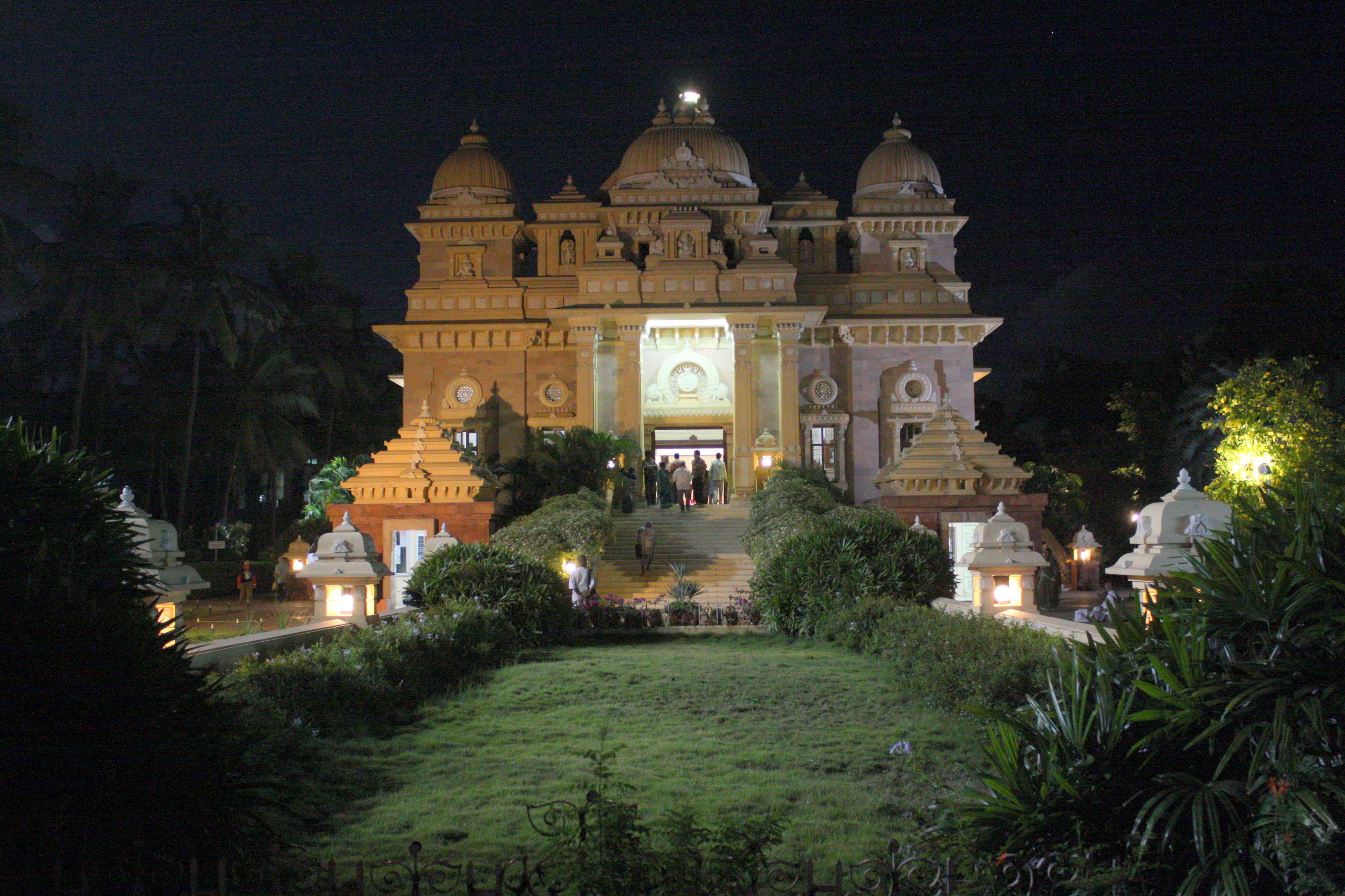 Universal Temple, Sree Ramakrishna Madh, Mylapore Chennai